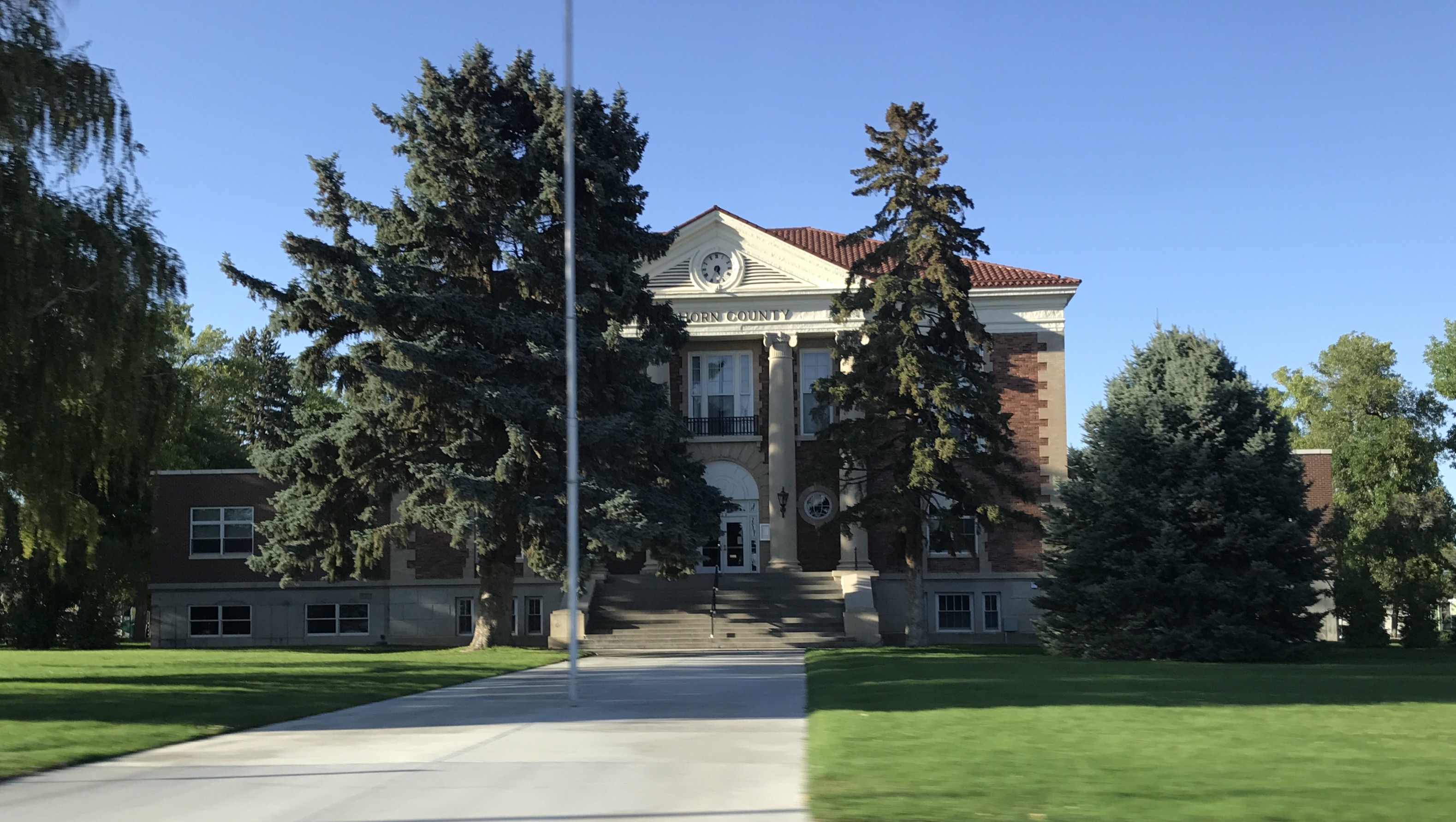 Front of Big Horn County Courthouse